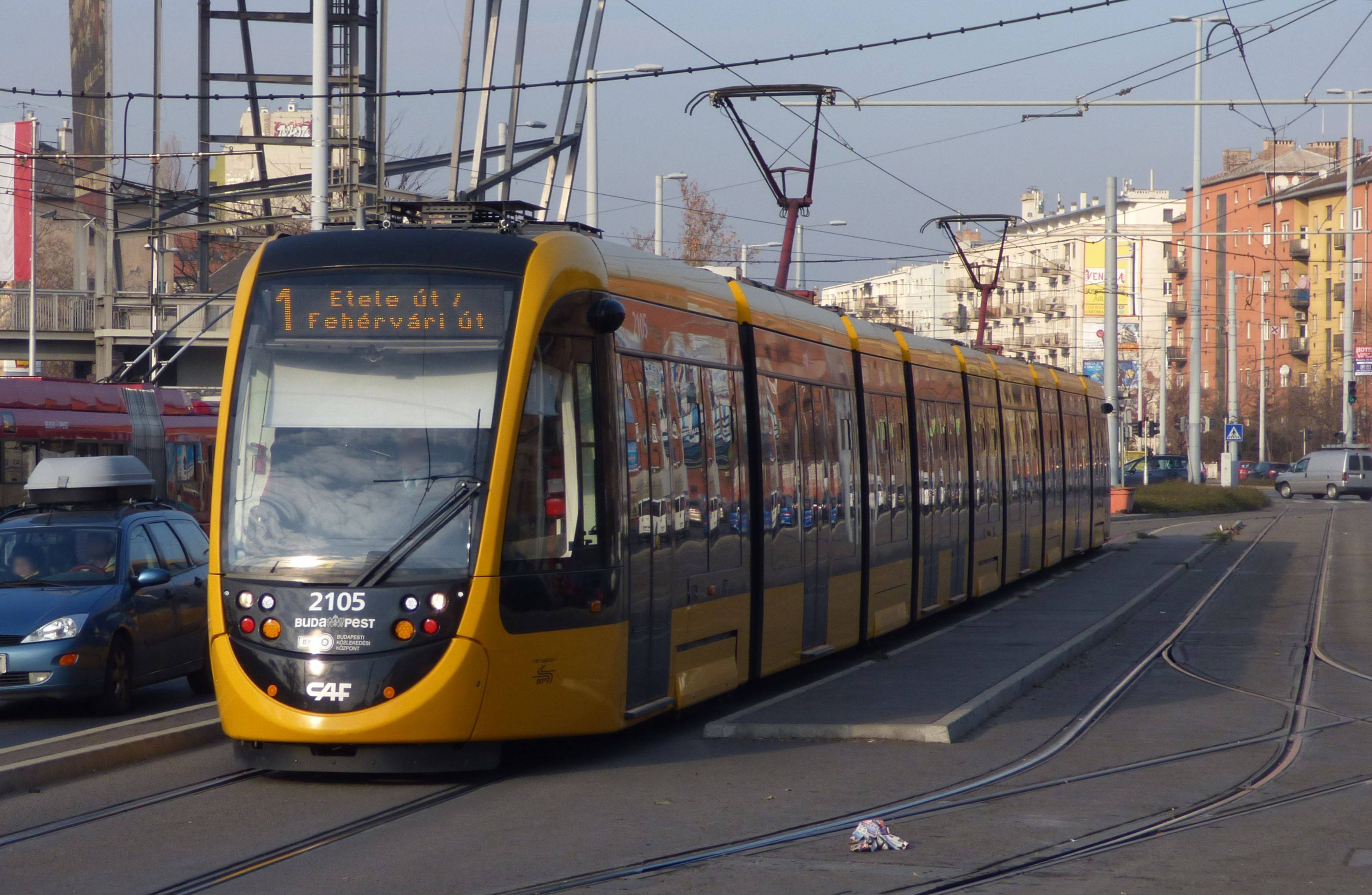 Tram line 1, Budapest, CAF Urbos 3 (cn. 2105)